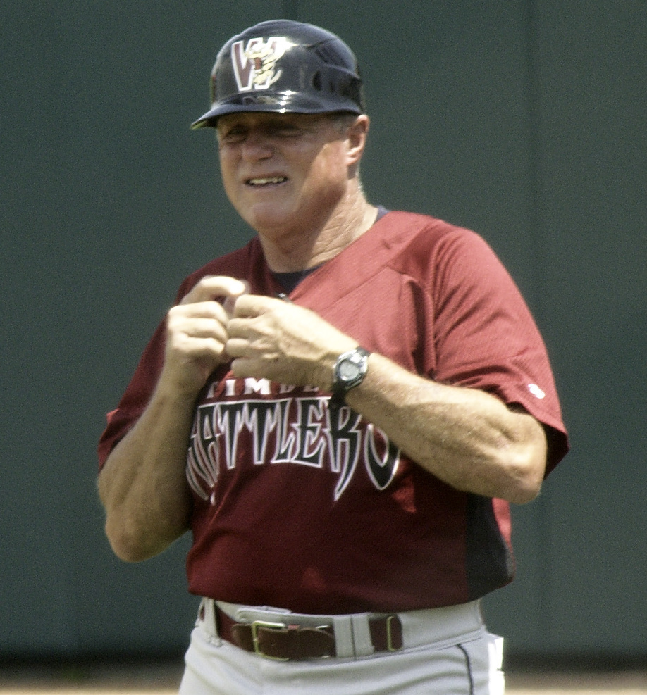 Dusty Rhodes as a coach with the Wisconsin Timber Rattlers during a 2011 game Cooley Law School Stadium in Lansing, Michigan